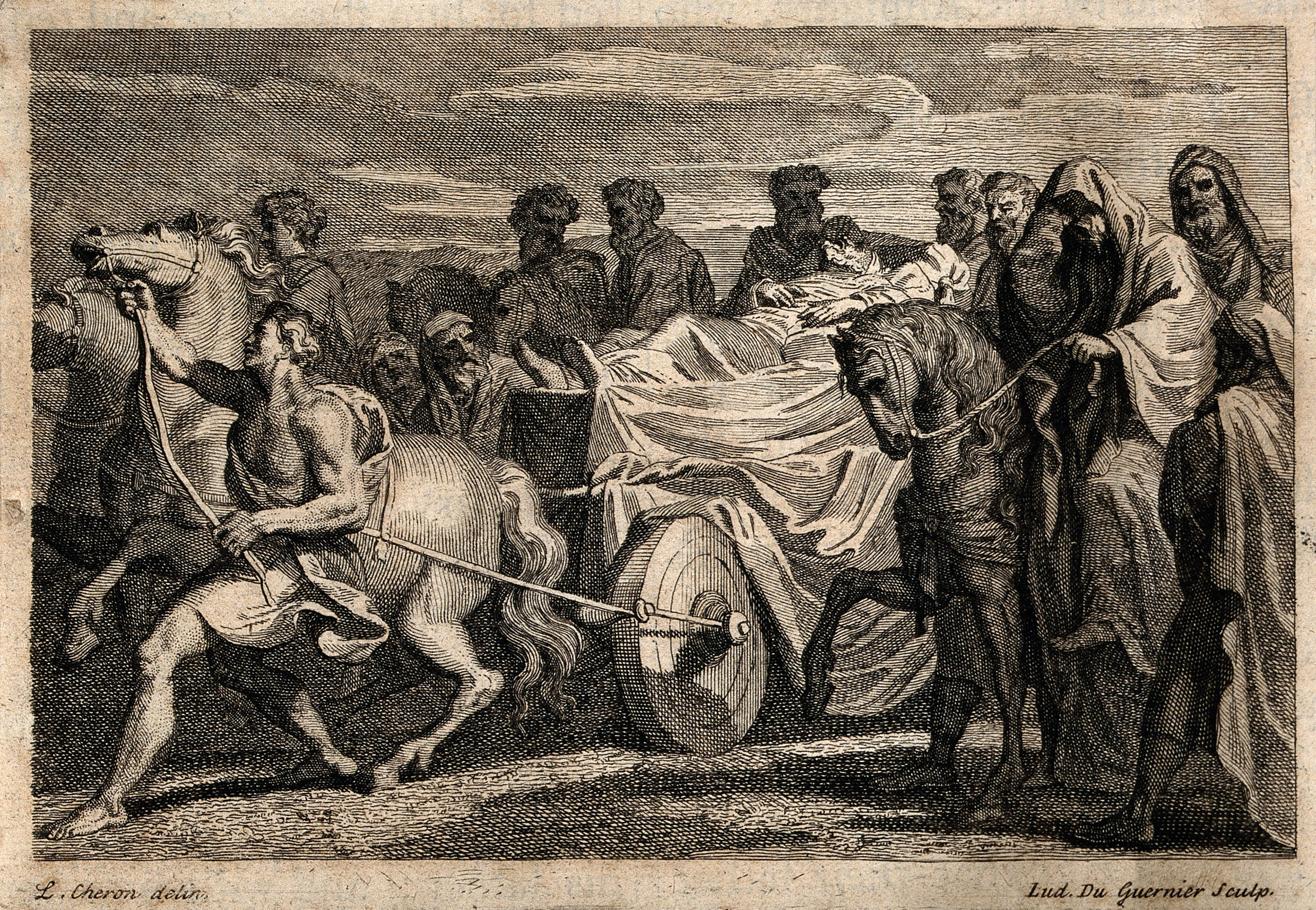 Jacob is taken to the cave in the field of Machpelah by a mournful procession; he wants to die in the spot bought by Abraham. Etching by L. du Guernier after L. Chéron. Iconographic Collections Keywords: Jacob; Louis Chéron; Louis Du Guernier